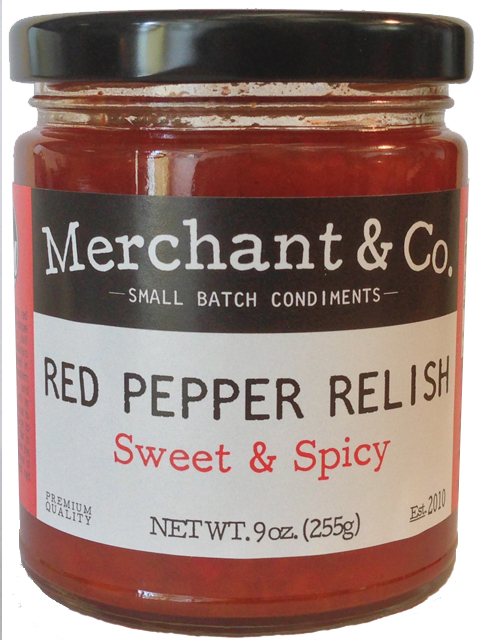 Sweet & Spicy Red Pepper Relish made by Merchant & Co.